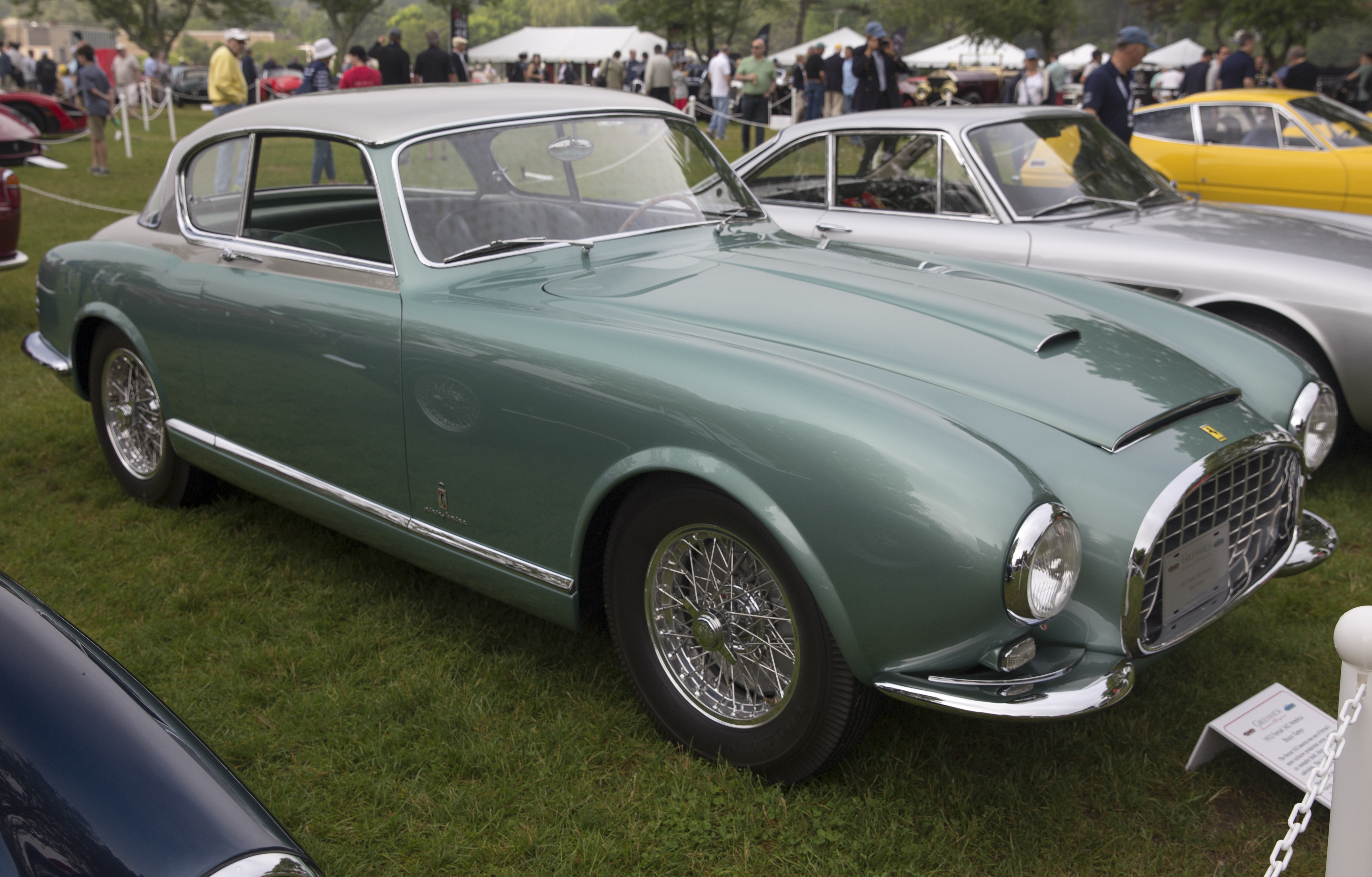 1952 Ferrari 342 America Pinin Farina coupé at the 2019 Greenwich Concours d'Elegance. Shiny green is the original paint scheme, although the car spent many decades black.